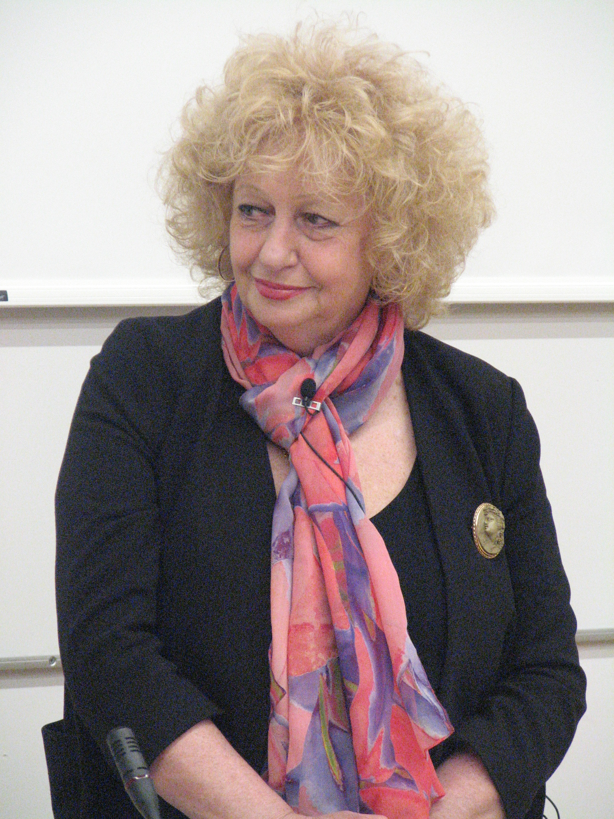 Jelena Skulskaja performing in Tallinn University during Prima Vista literary festival